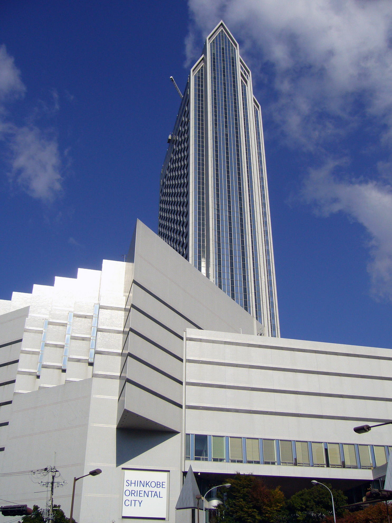 Shinkobe Oriental City in Kobe, Hyogo prefecture, Japan